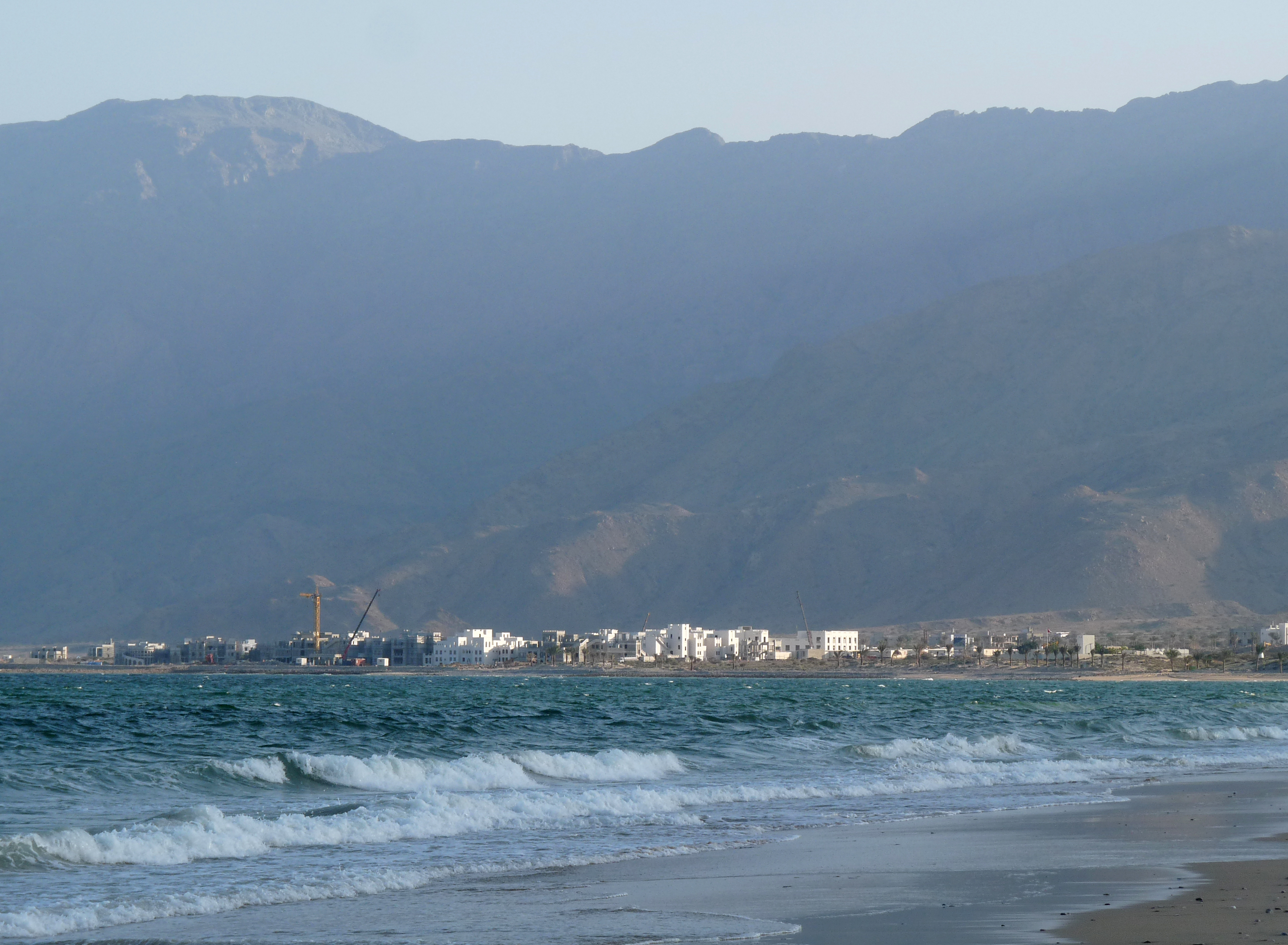 Sifah (Oman)